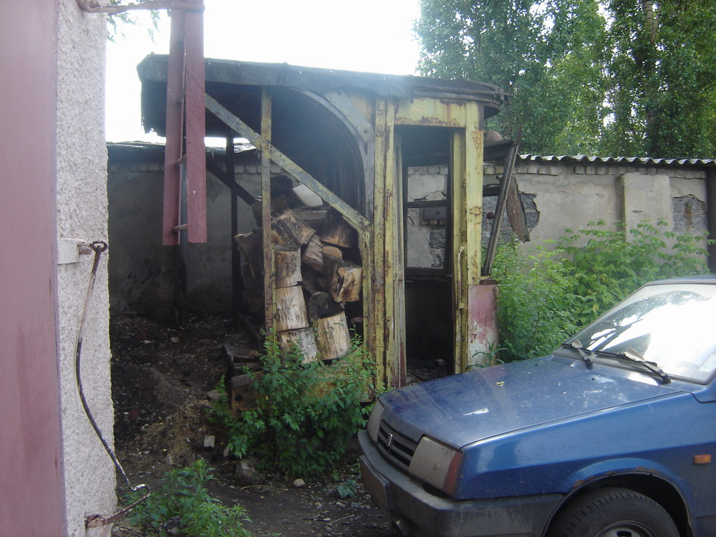 Tramcar "Kh" in Depot, Voronezh